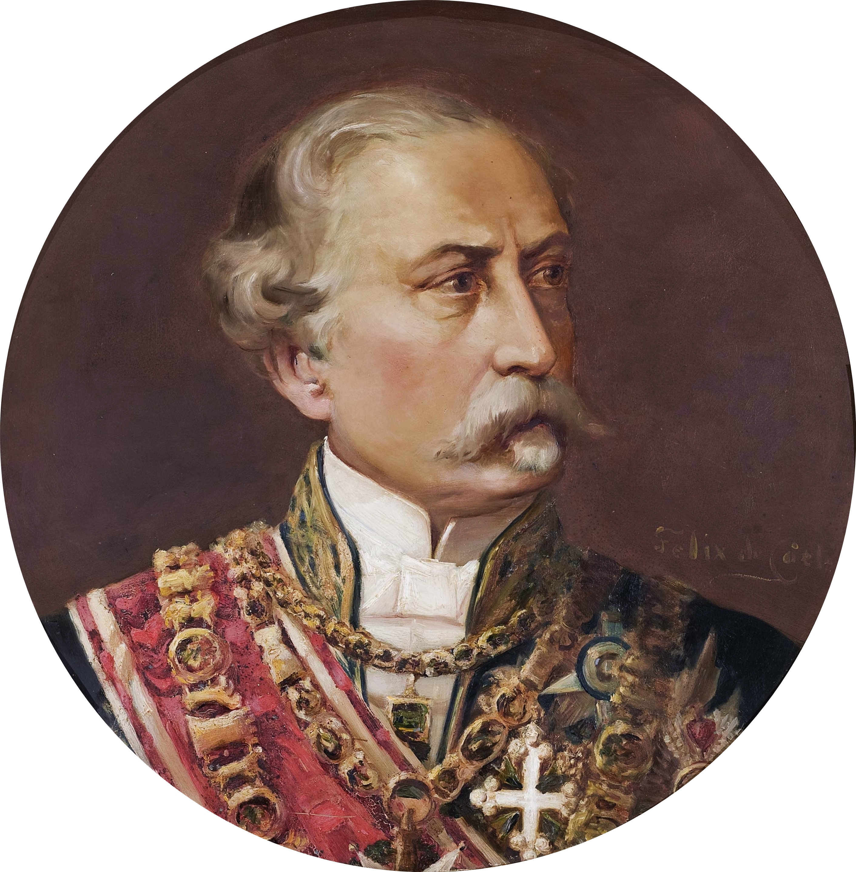 Portrait of the Duke of Loulé, in the Palace of Saint Benedict.